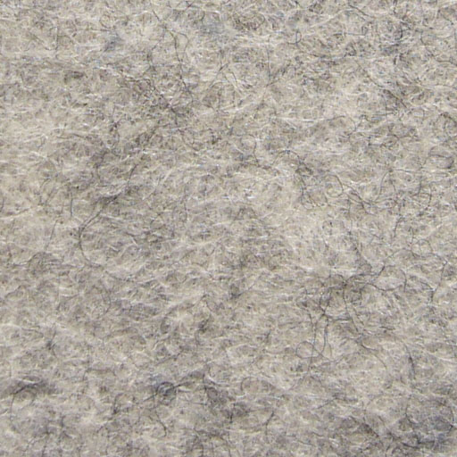 Surface of felt which is made of 60%+ wool and 40%- rayon.